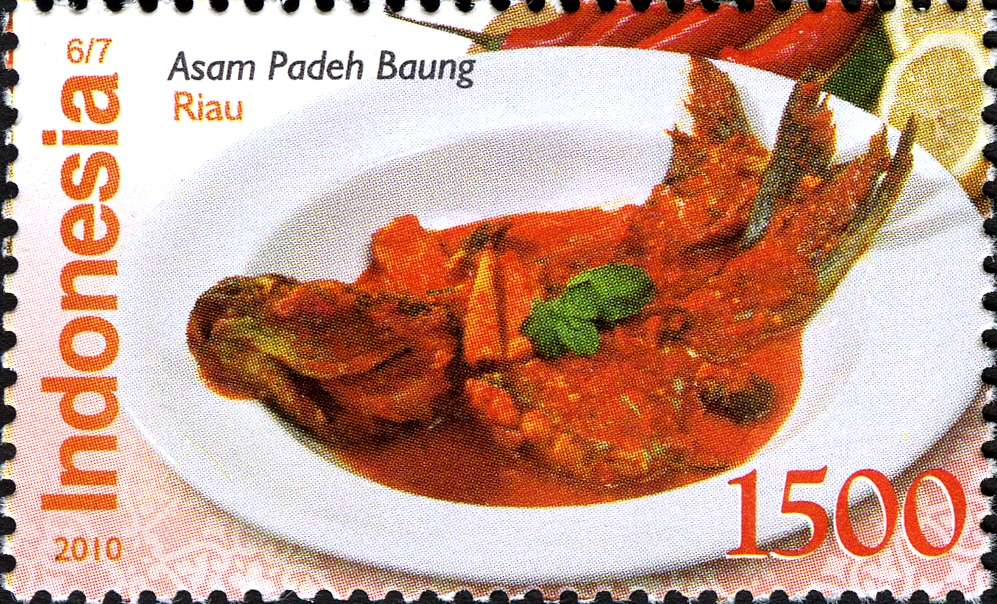 Stamps of Indonesia